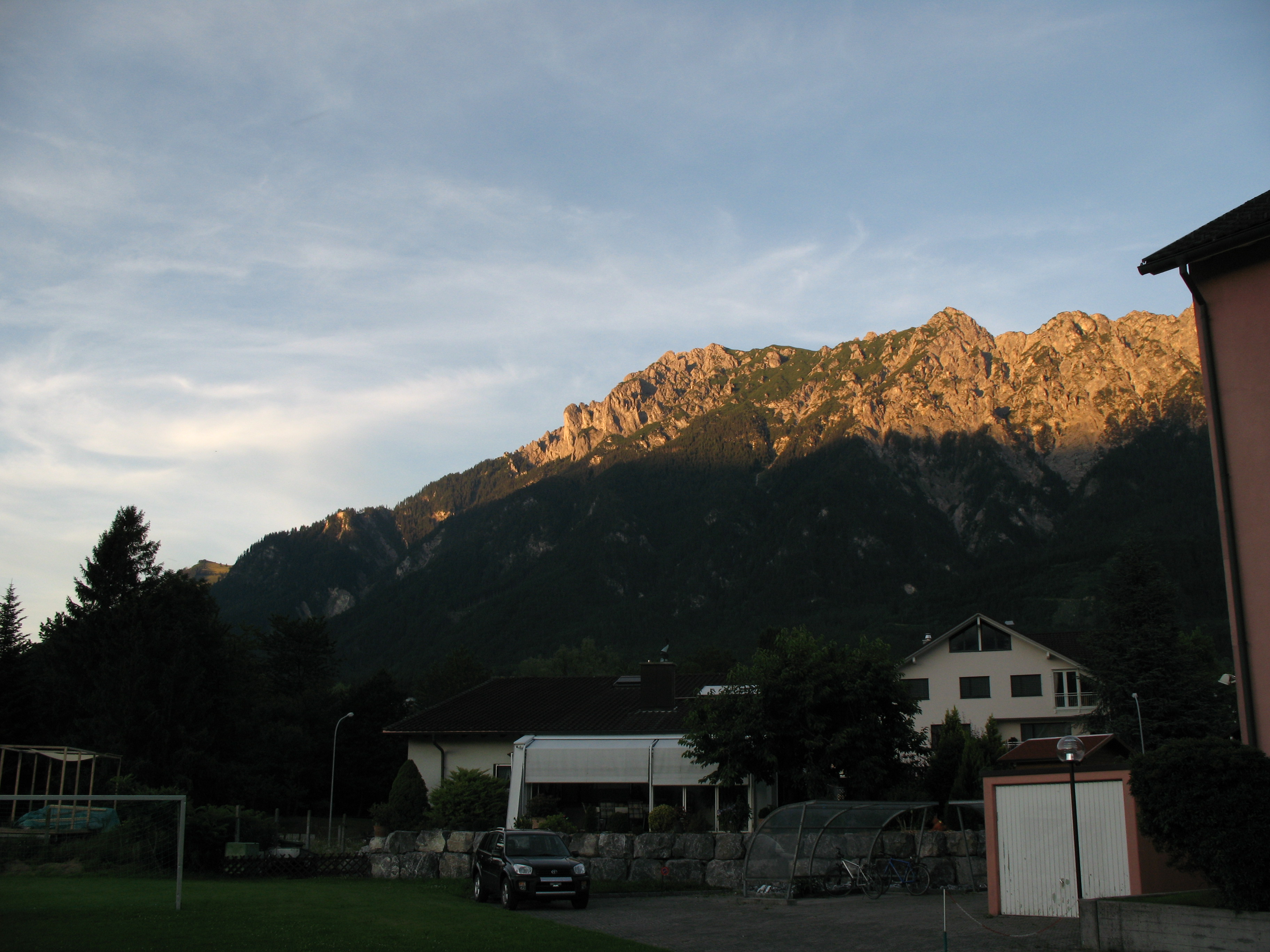 View from the Youth Hostel of Schaan and Vaduz, Vaduz, Liechtenstein